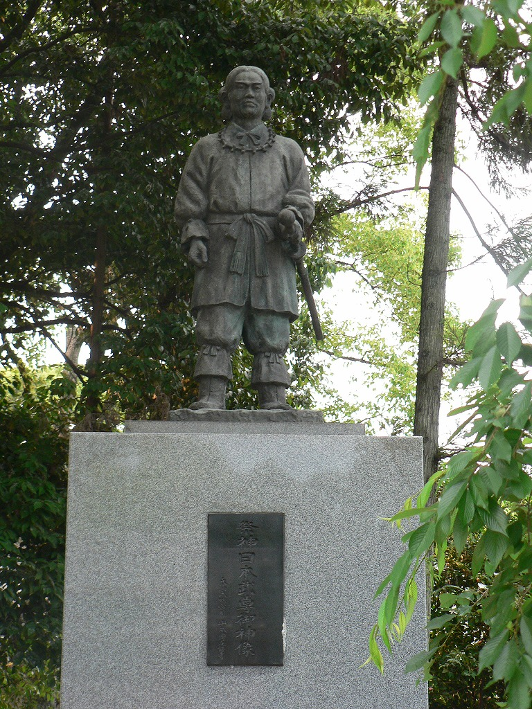 the bronze statue of Yamato Takeru at Ootori-taisha shrine, Sakai, Osaka, Japan